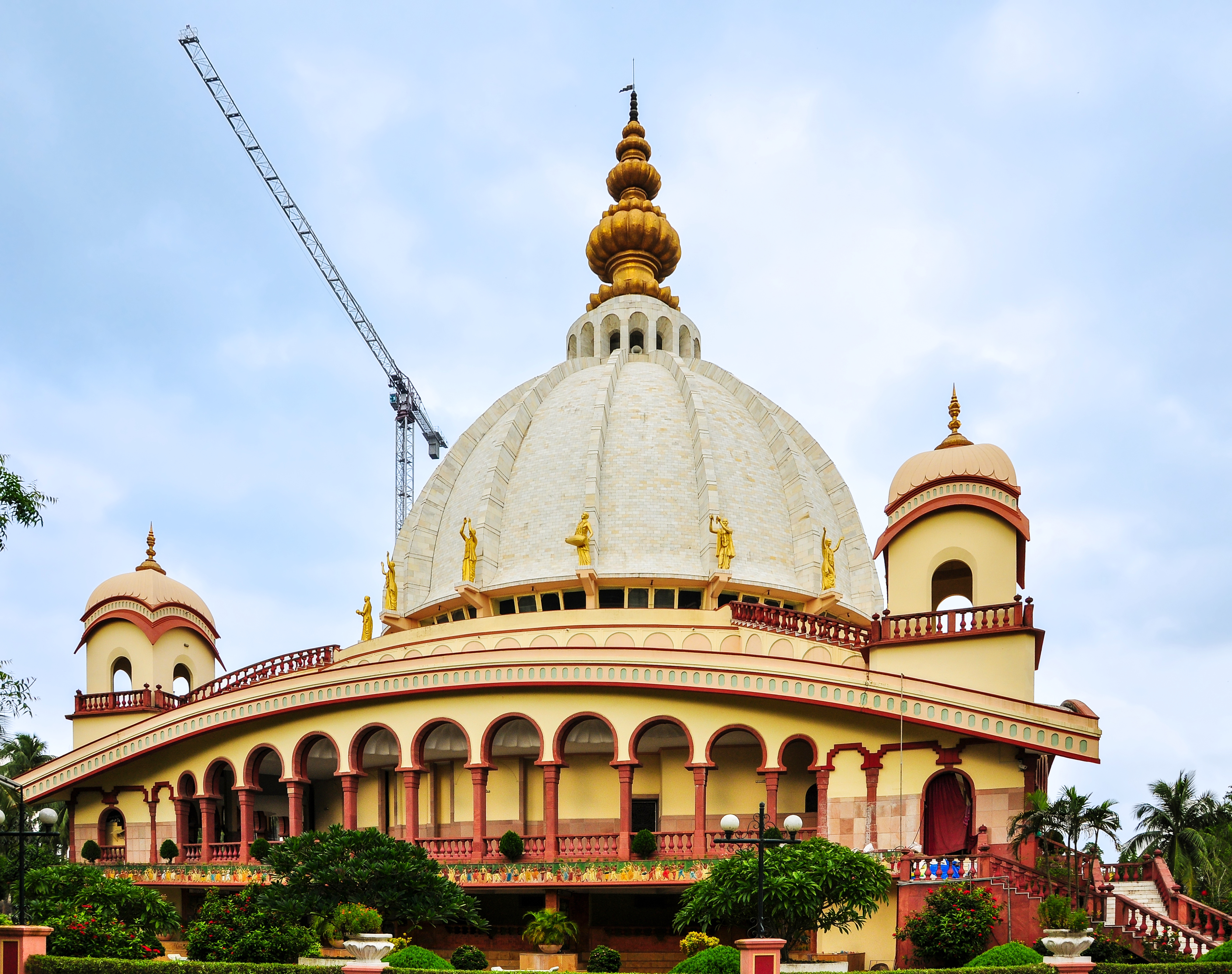 Samadhi Mandir of Srila Prabhupada at ISKCON, Mayapur, West Bengal, India.